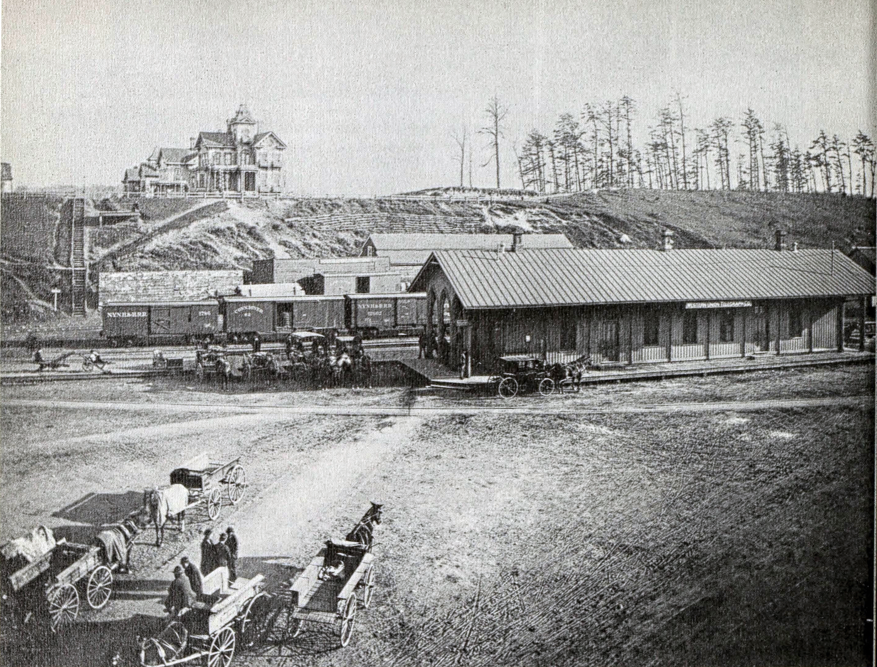 The original train depot at Depot Square (looking from Dwight and Main Streets) in Holyoke Massachusetts; looking up towards Depot Hill